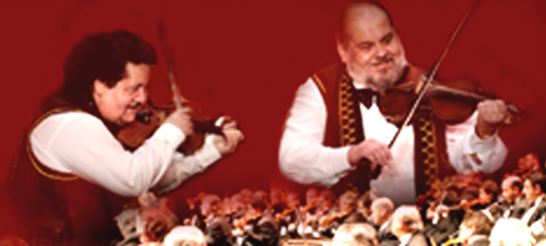 Two gipsy violinists cut out from 100violins in Wikimedia to be used as illustration for Gipsy Entertainment Music in Wikipedia